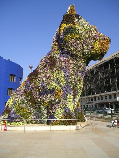 own picture, Spring 2004